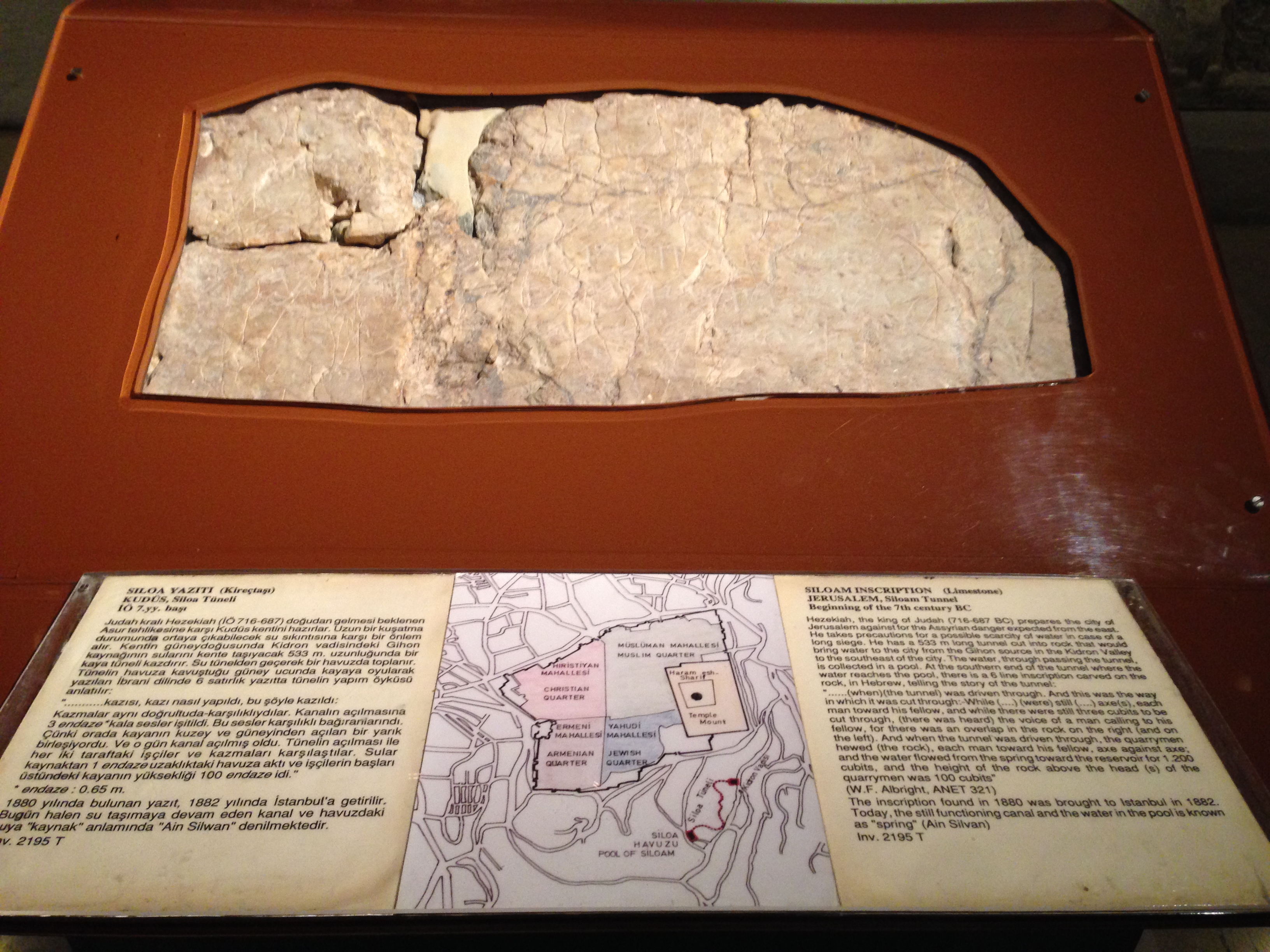 Siloam inscription as displayed at the Istanbul Archaeological Museums